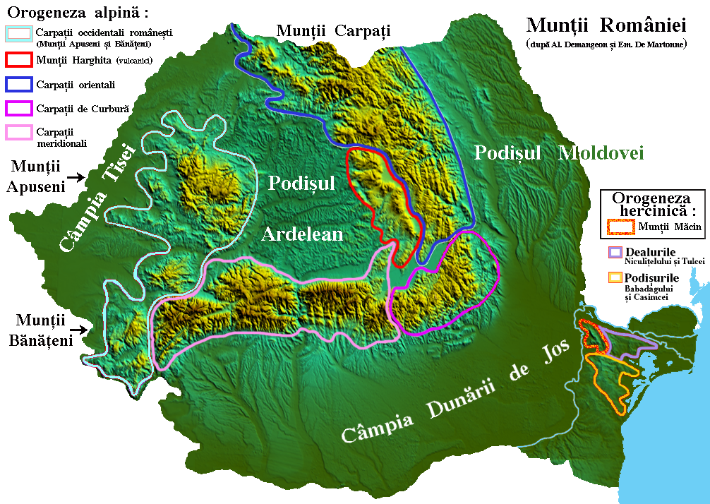 Derivative map since Qyd's map Romania-relief.png ([1]) and Marcussep's map Mapcarpat2.png ([2]), according with Albert Demangeon & Emmanuel de Martonne works ("Recherches sur l'évolution morphologique des Alpes de Transylvanie (Carpates méridionales)", Paris, Delagrave, 1906 and Géographie universelle (dir. Vidal de la Blache, Gallois), vol. IV : "Europe centrale", Paris, Armand Colin, 1930 & 1931